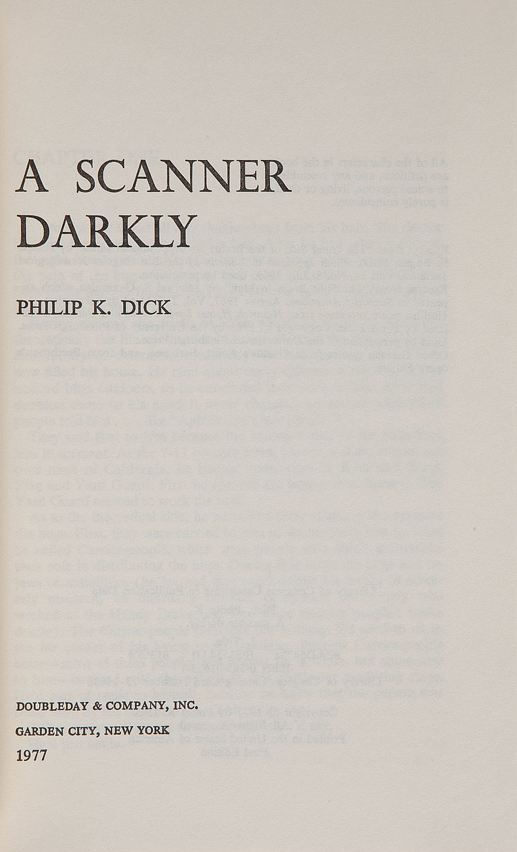 A Scanner Darkly